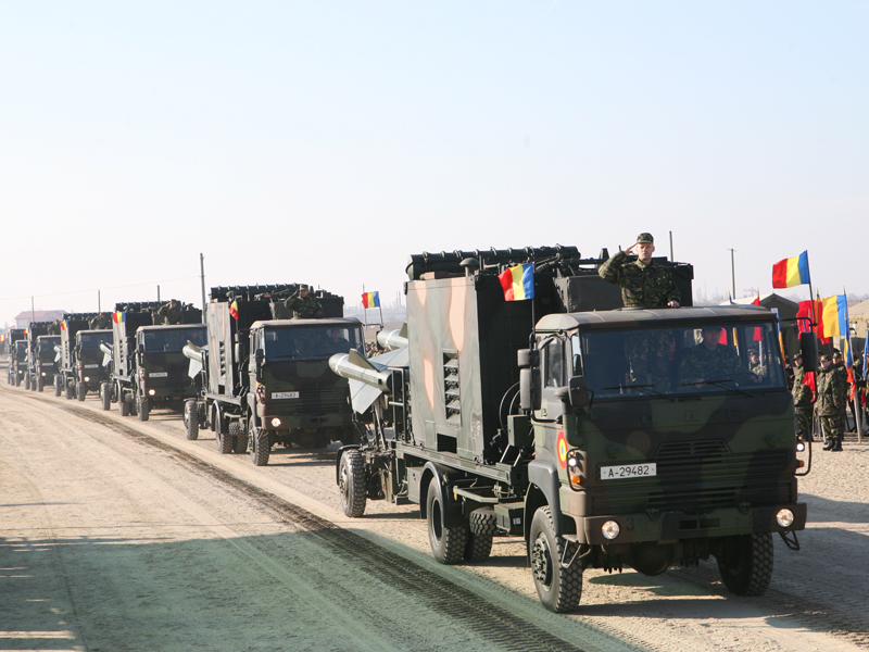 Romanian MIM-23 HAWK during the rehearsals for the National Day in 2008.